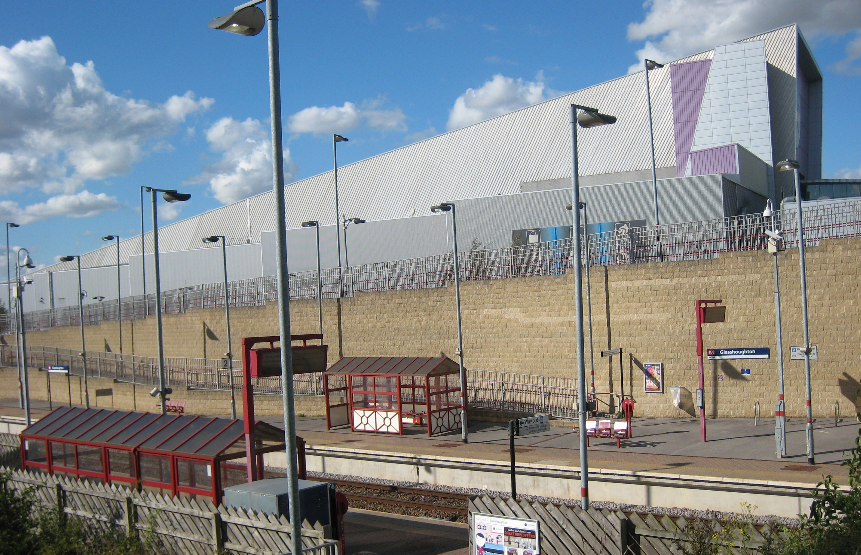 Glasshoughton railway station with Xscape behind. Viewed from the pedestrian bridge.